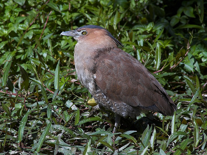 Gorschkius melanolothus